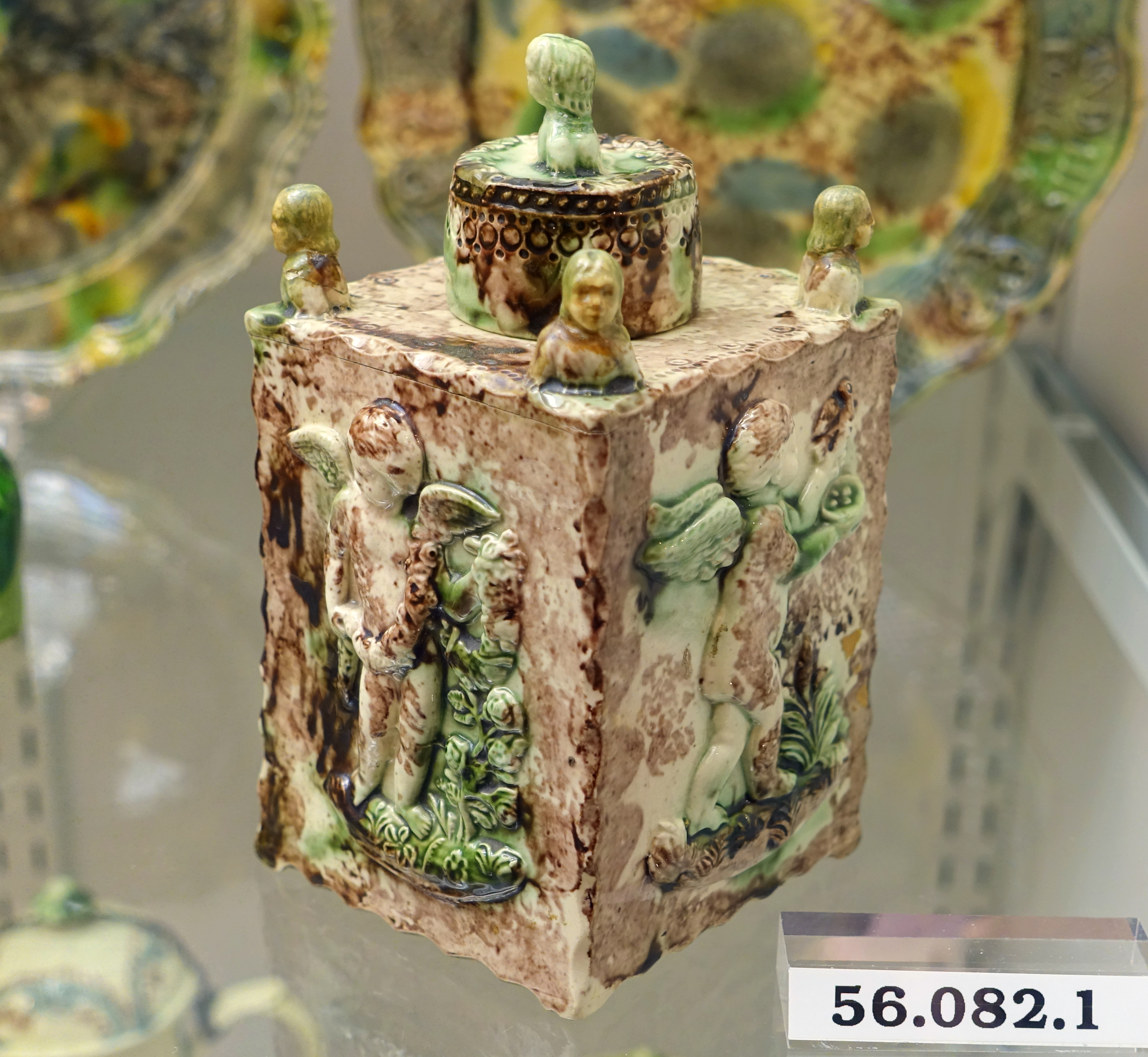 Exhibit in the Flynt Center of Early New England Life, Historic Deerfield - Deerfield, Massachusetts, USA.